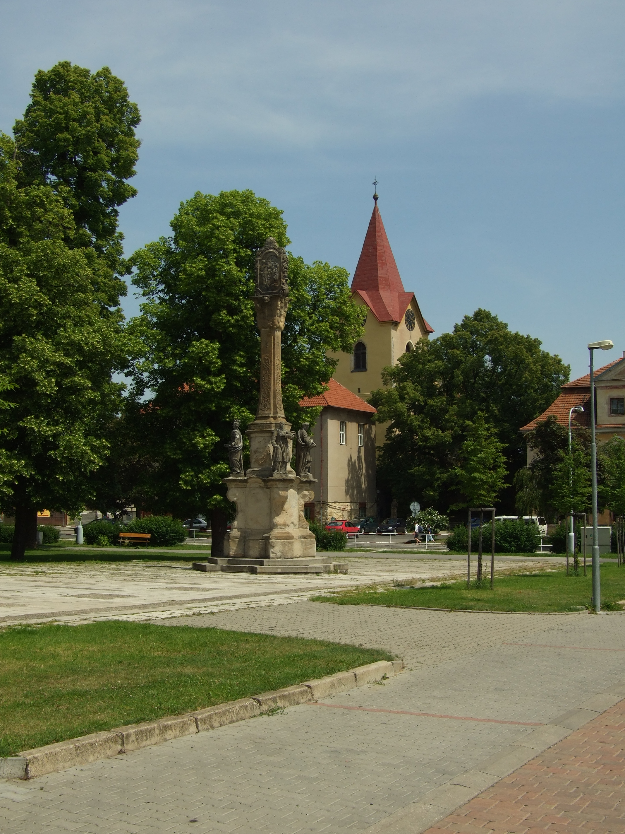 Hostivice, Prague-West District, Central Bohemian Region, the Czech Republic.